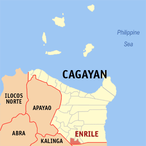 Map of Cagayan showing the location of Enrile